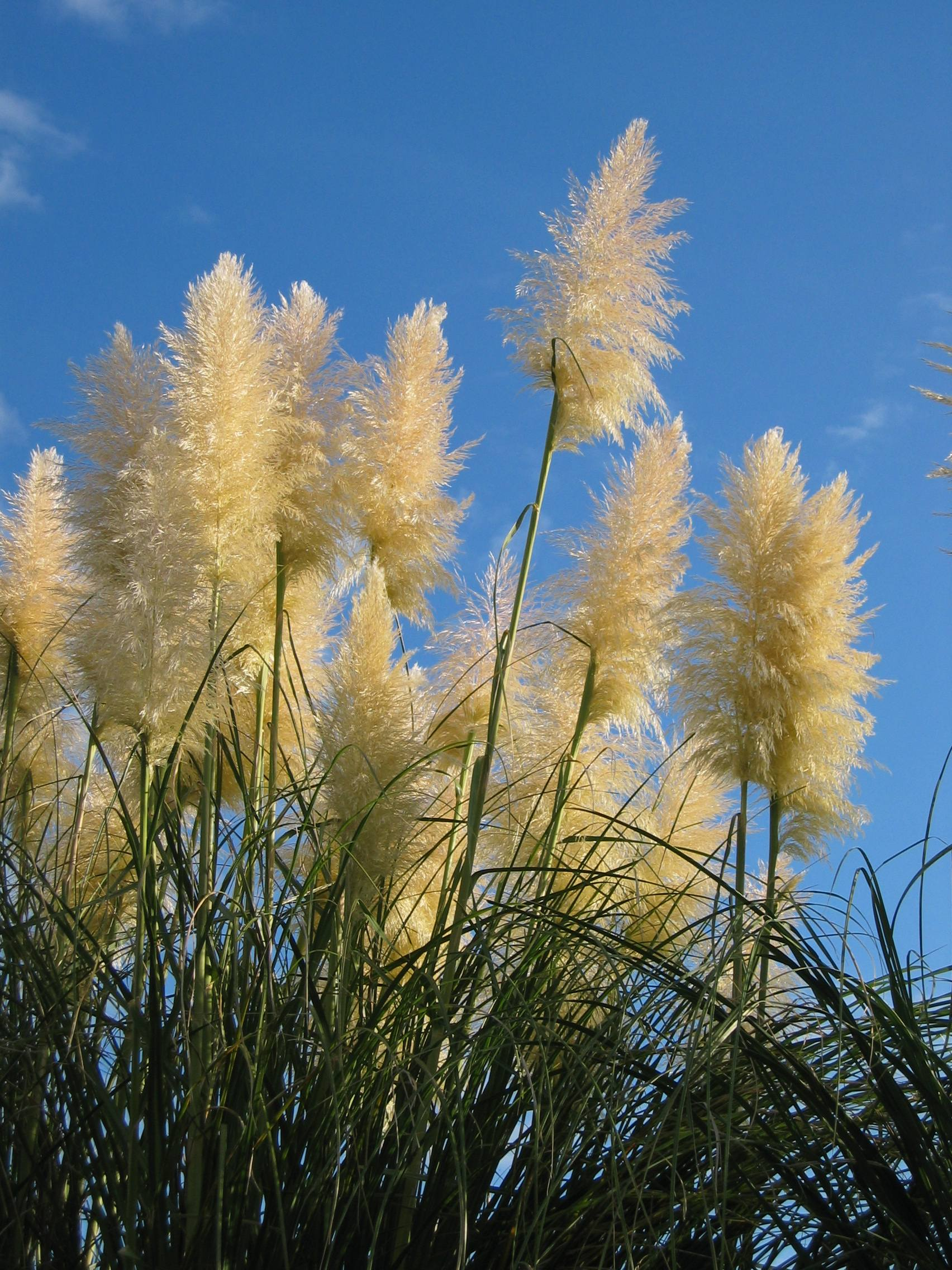 Photograph of Pampas Grass plumes, taken at sunset on New Zealand's Kapiti Coast.